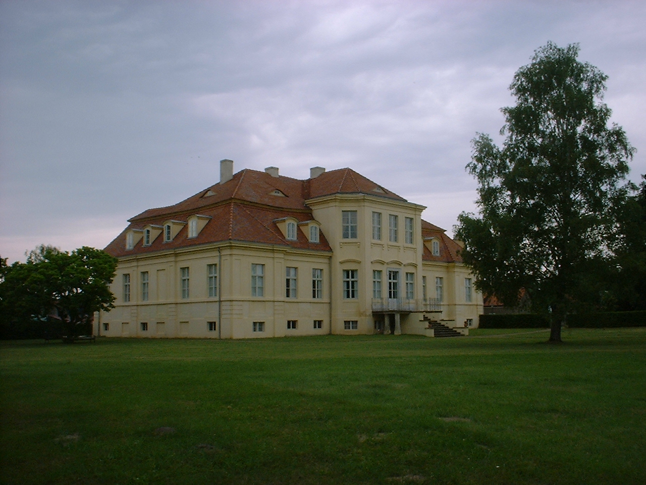 Manor house in Reckahn in Brandenburg, Germany